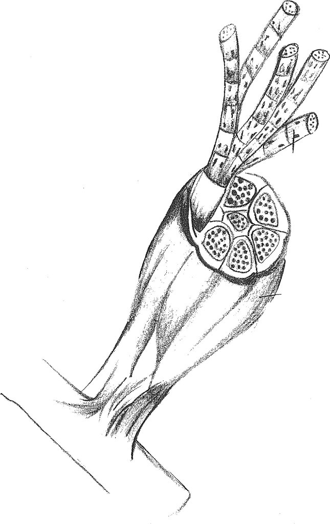 sketch of the epimysium, fascilce and individual muscle cell fibre